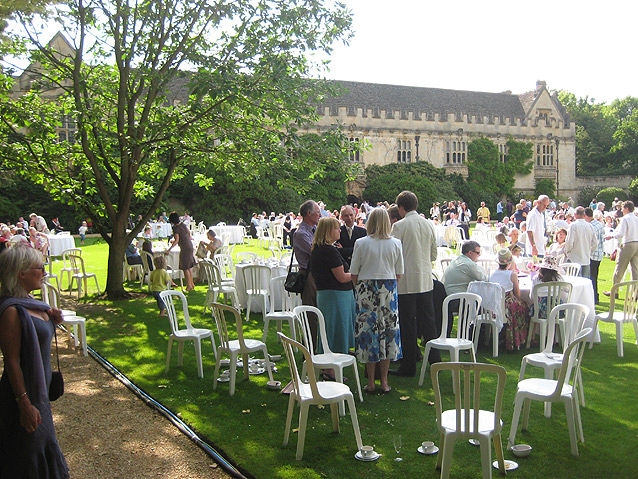 College Garden Party Behind closed doors, graduates and members of St John's College enjoy a garden party, an event held every two or three years.